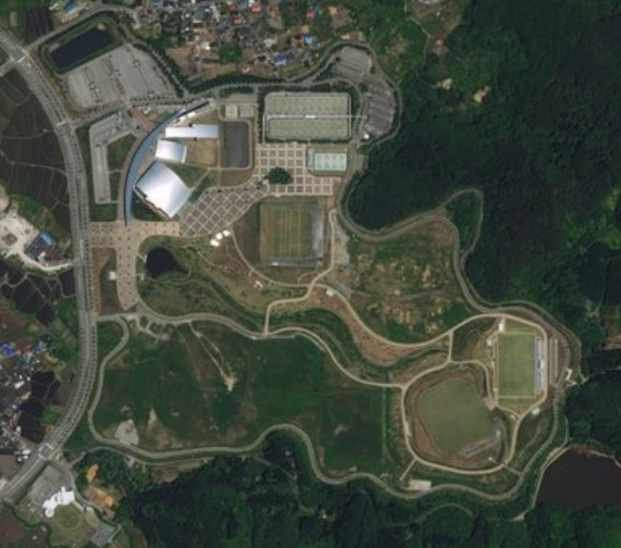 Satellite view